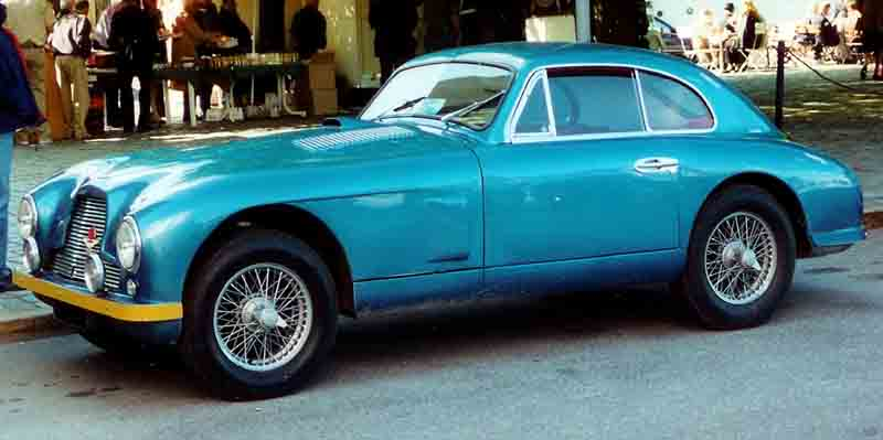 Aston Martin DB2 Coupé